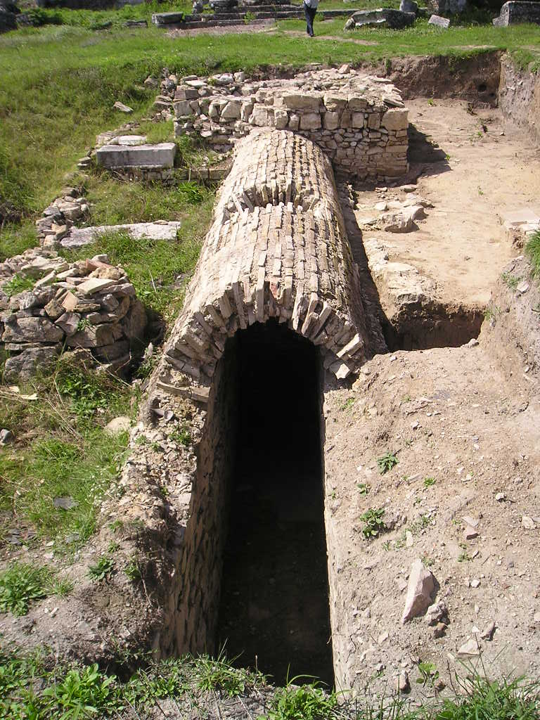 Underground pipe in Nicopolis ad Istrum